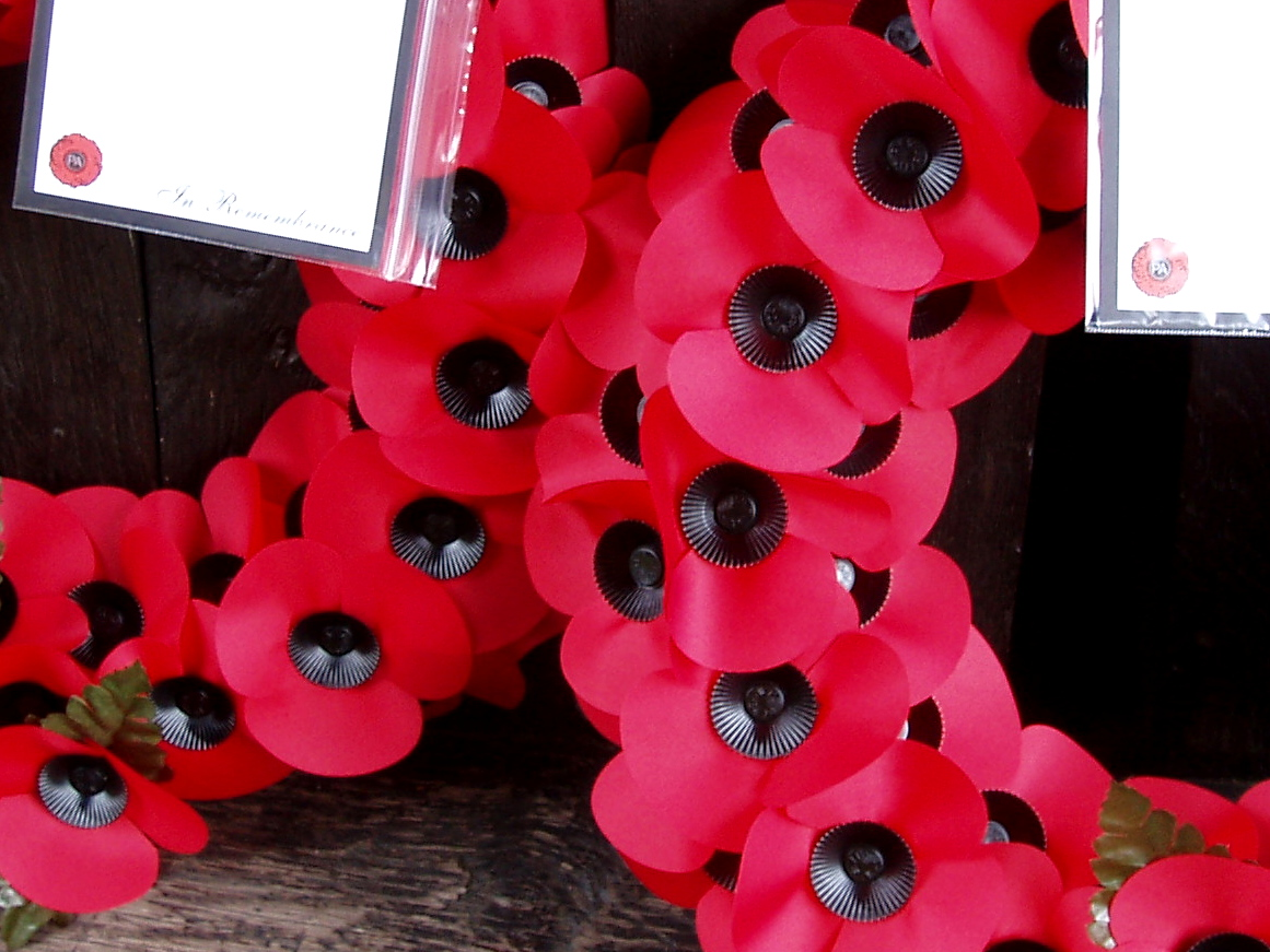 In the lych gate, Corley. Remembrance Sunday.